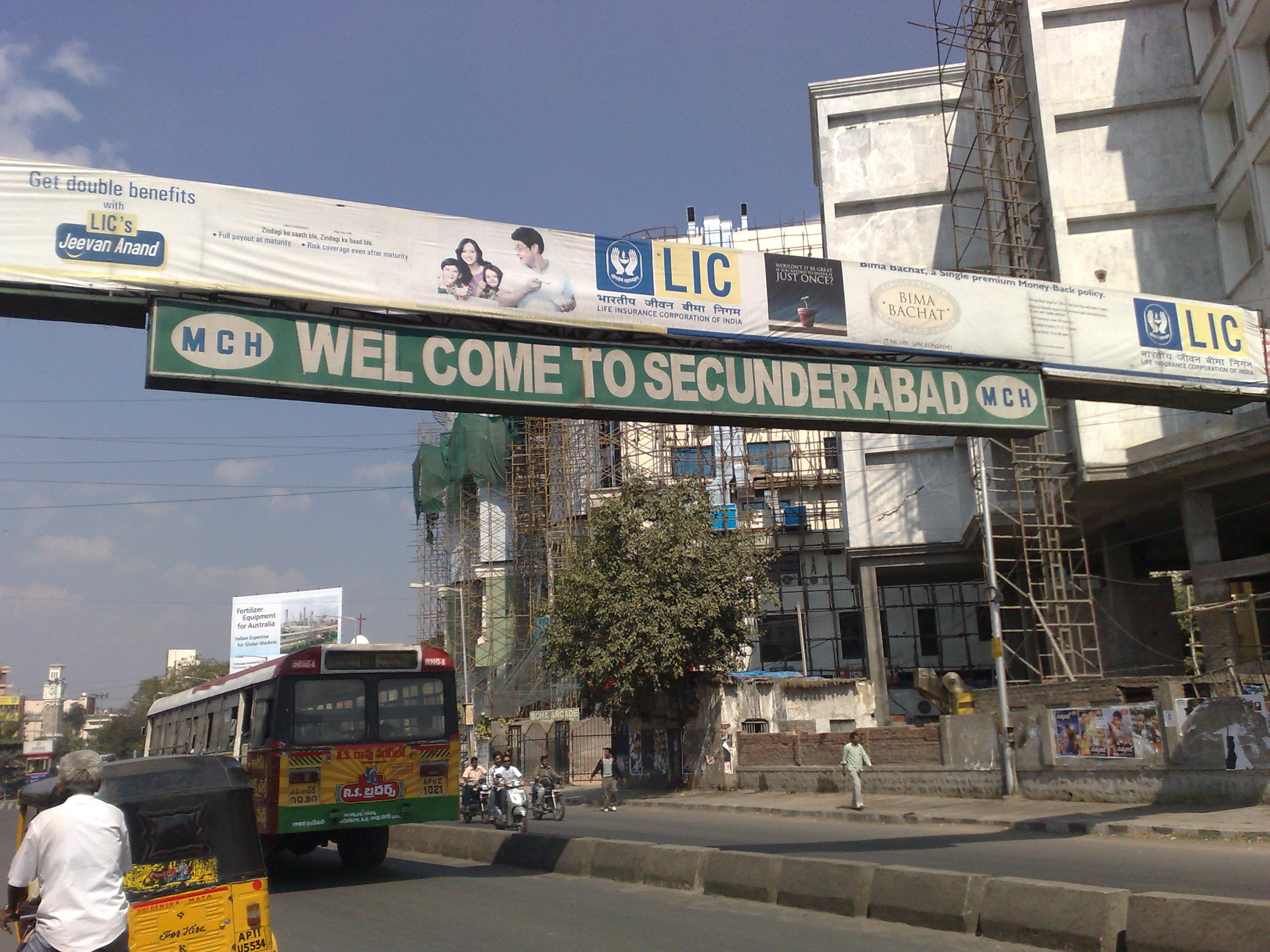 Secunderabad Railway Station 4